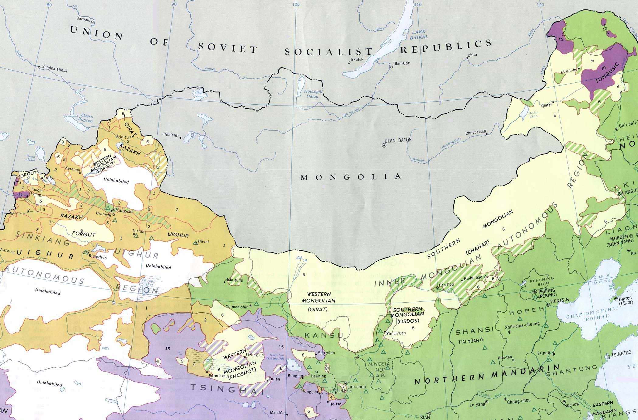 China - Ethnolinguistic Groups from People's Republic of China Map Folio. U.S. Central Intelligence Agency, Directorate of Intelligence, Office of Basic Geographic Intelligence, 1967. (960K) The map shows the distribution of ethnolinguistic groups in mainland China according to the historical majority ethnic groups by region. Note this does not represent the current distribution due to age-long internal migration and assimilation.